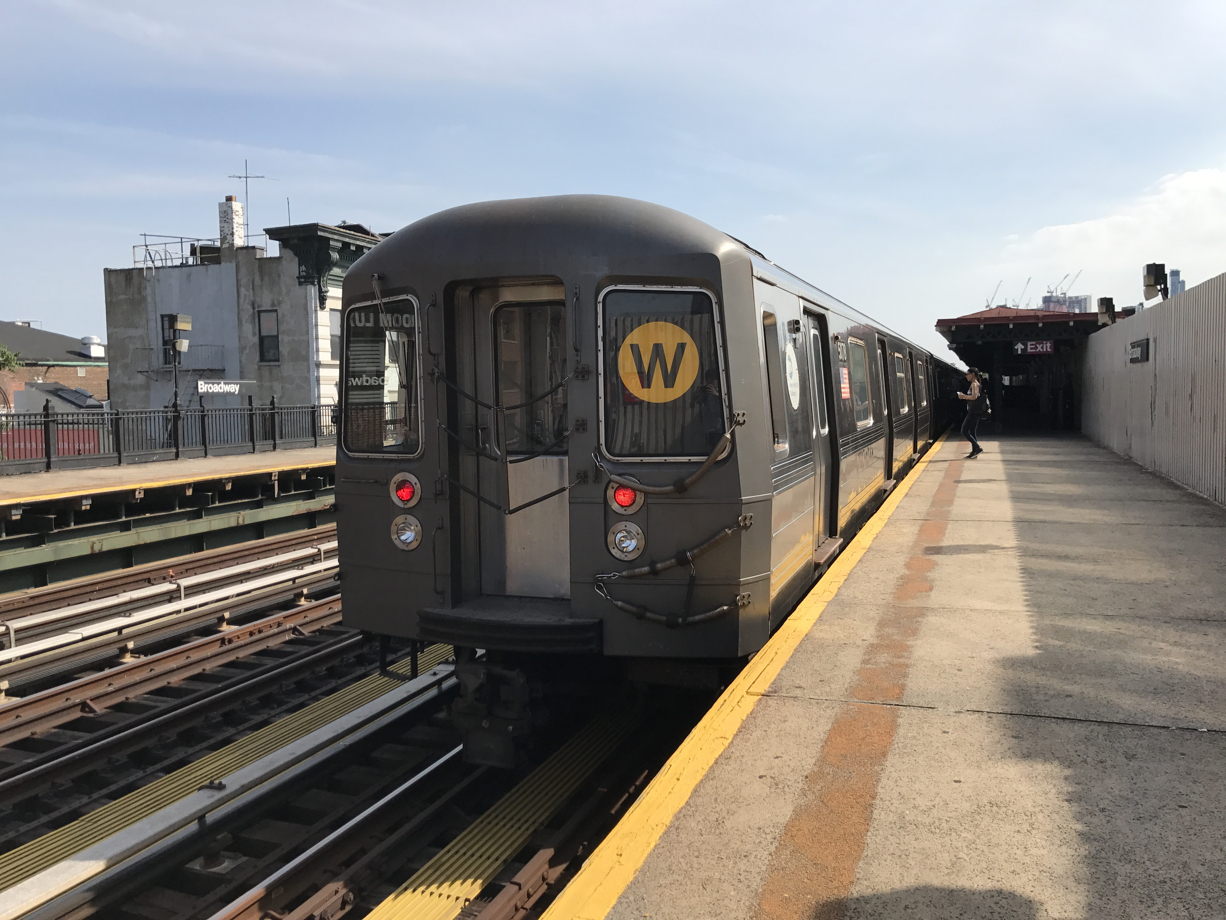 This is an R68A W train. It is car 5078 and is at the Broadway station in Astoria, Queens.